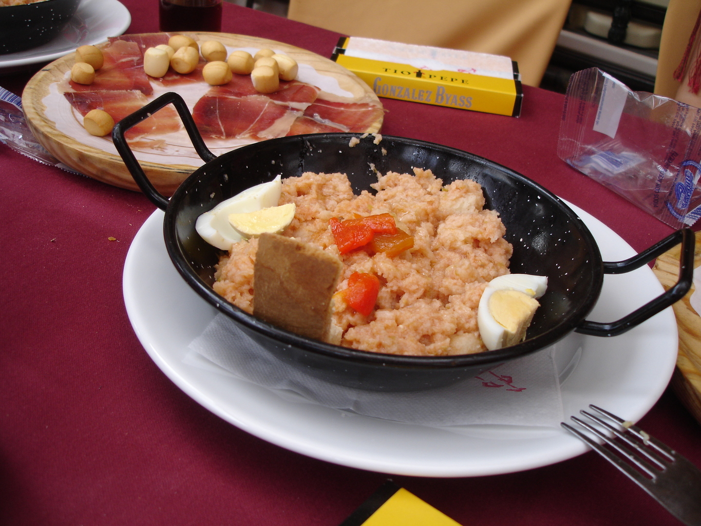 Ajo caliente dish in Feria de Jerez